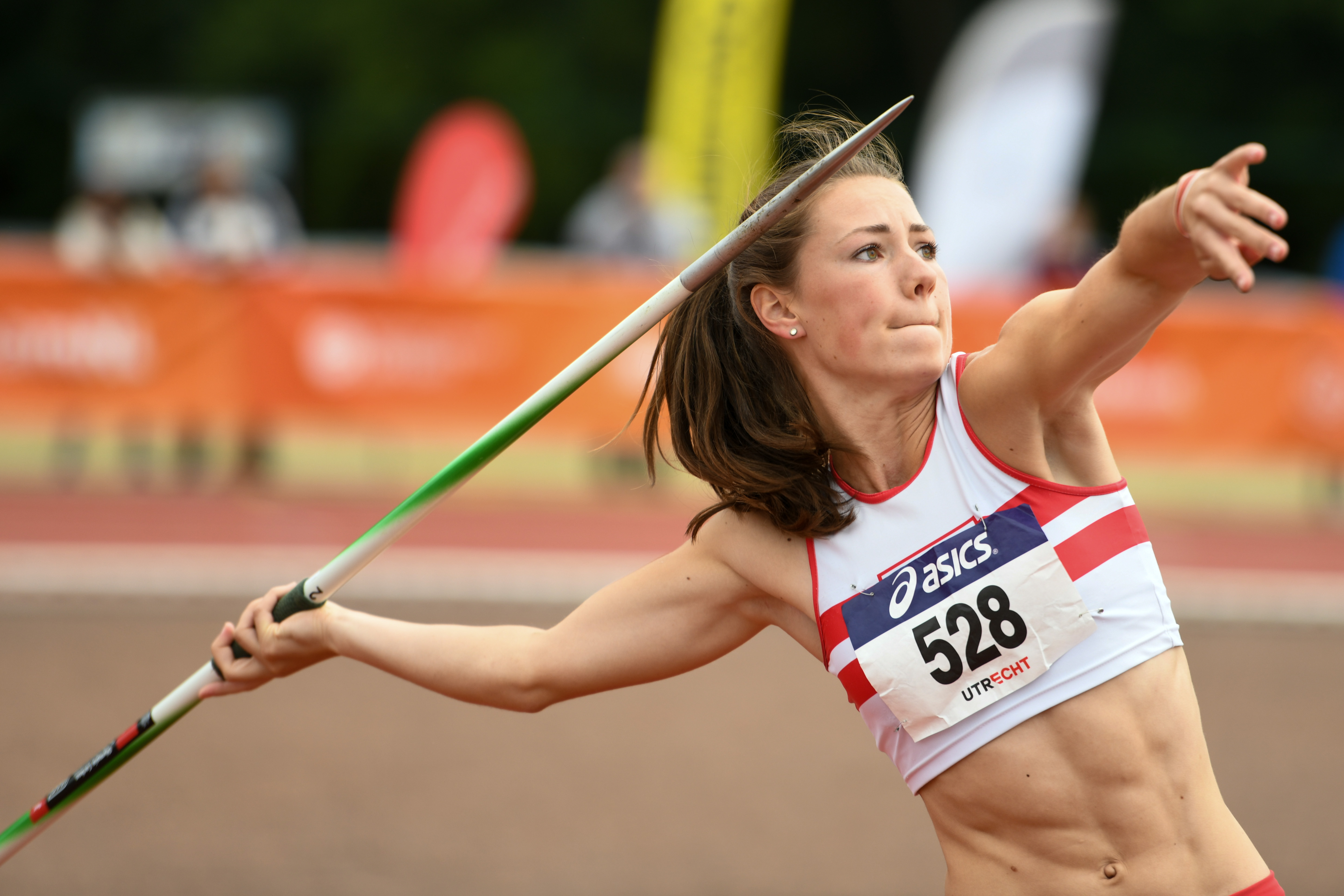 Emma Oosterwegel in action at the 2018 Dutch Championships in athletics in Utrecht.